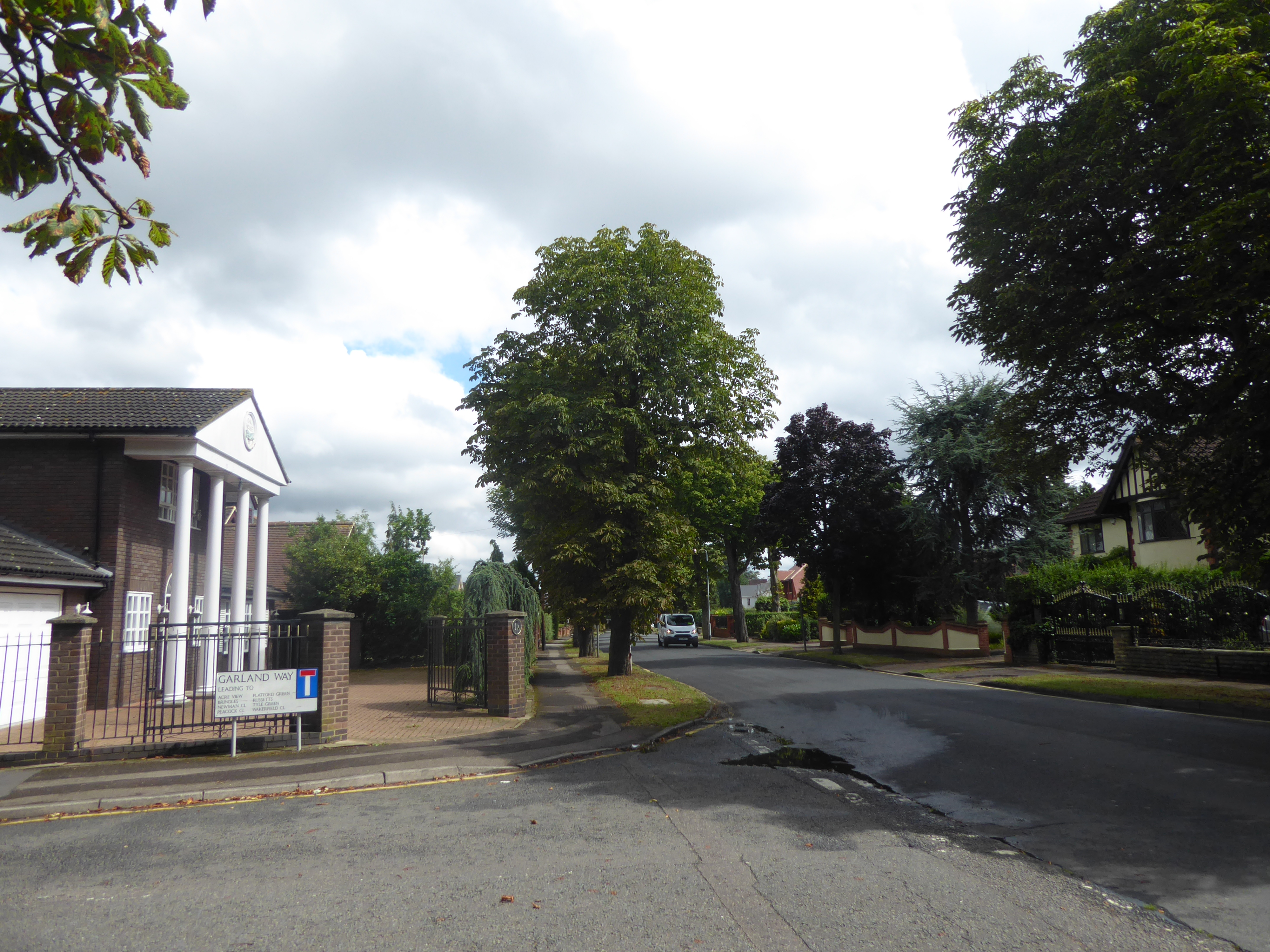 Nelmes Way, Ardleigh Green